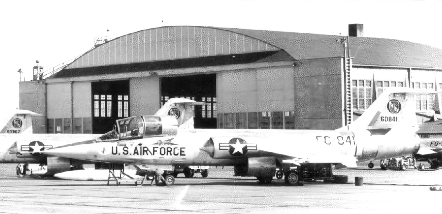 538th Fighter-Interceptor Squadron Lockheed F-104A-25-LO Starfighter 56-841 Larson AFB, Washington, 1958. Later assigned to (157th FIS/SC ANG) crashed 3.5 mi SE of Malagea, Spain following engine stall Dec 7, 1961. Pilot ejected safely.